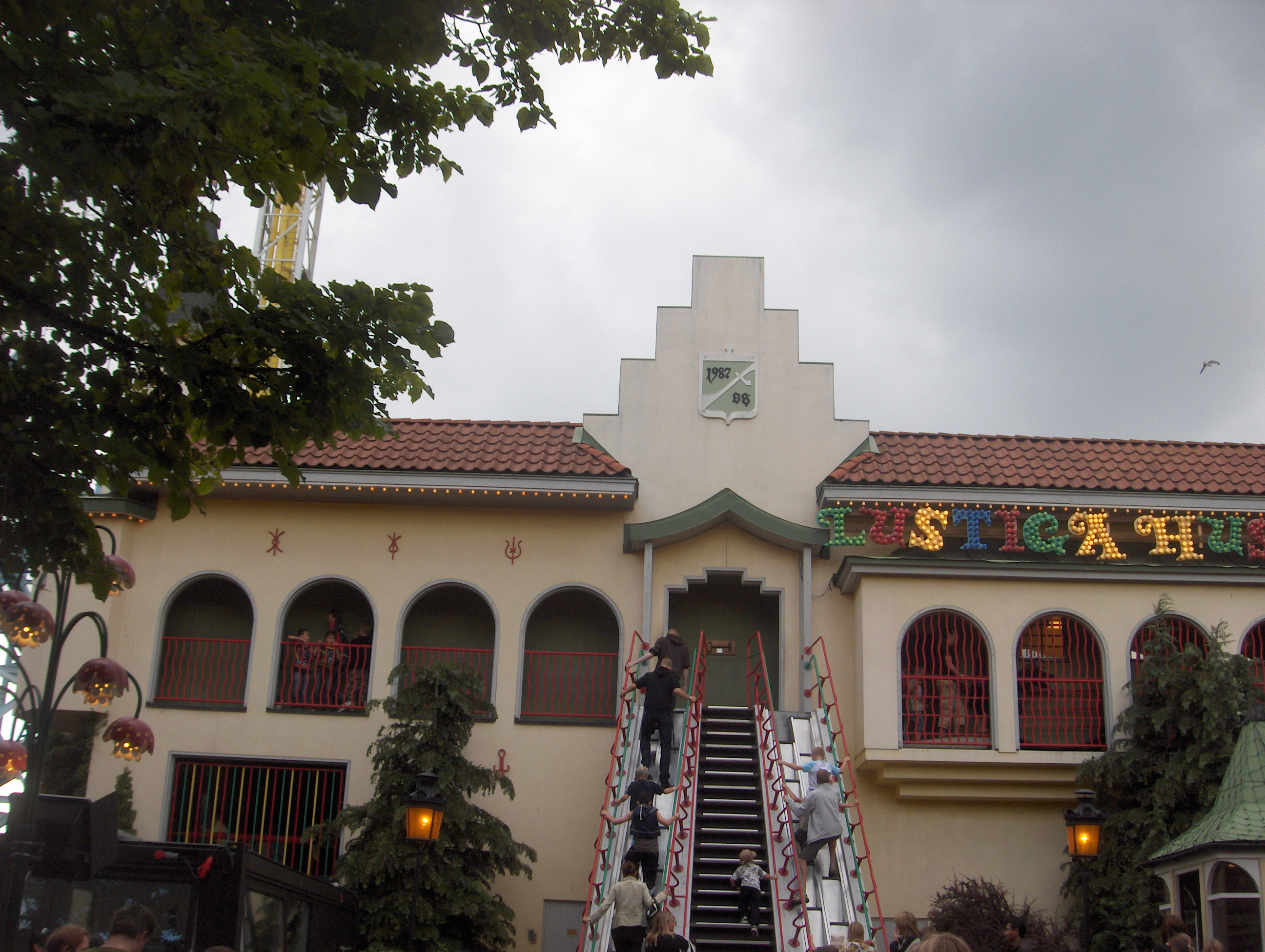 Lustiga Huset at Gröna Lund summer 2007